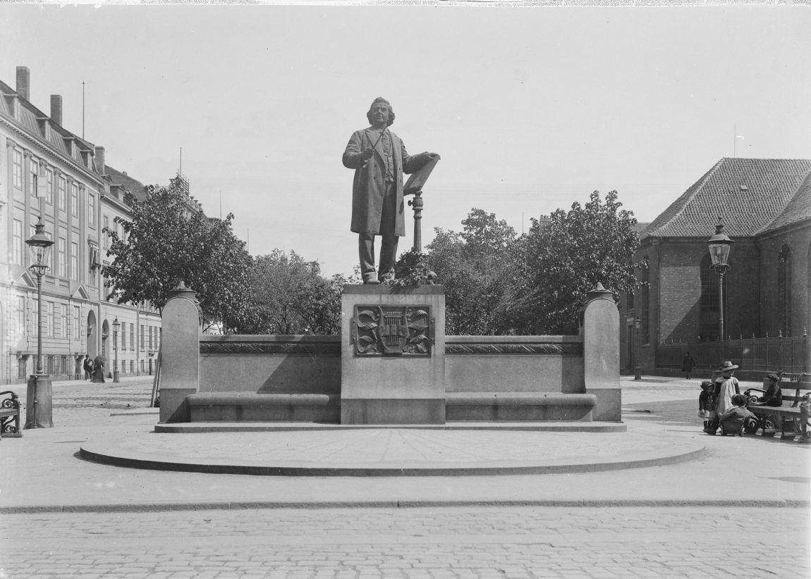 Niels W Gade Monument on Sankt Annæ Plads in Copenahgen, Denmark. It has later been moved to Østre Anlæg.